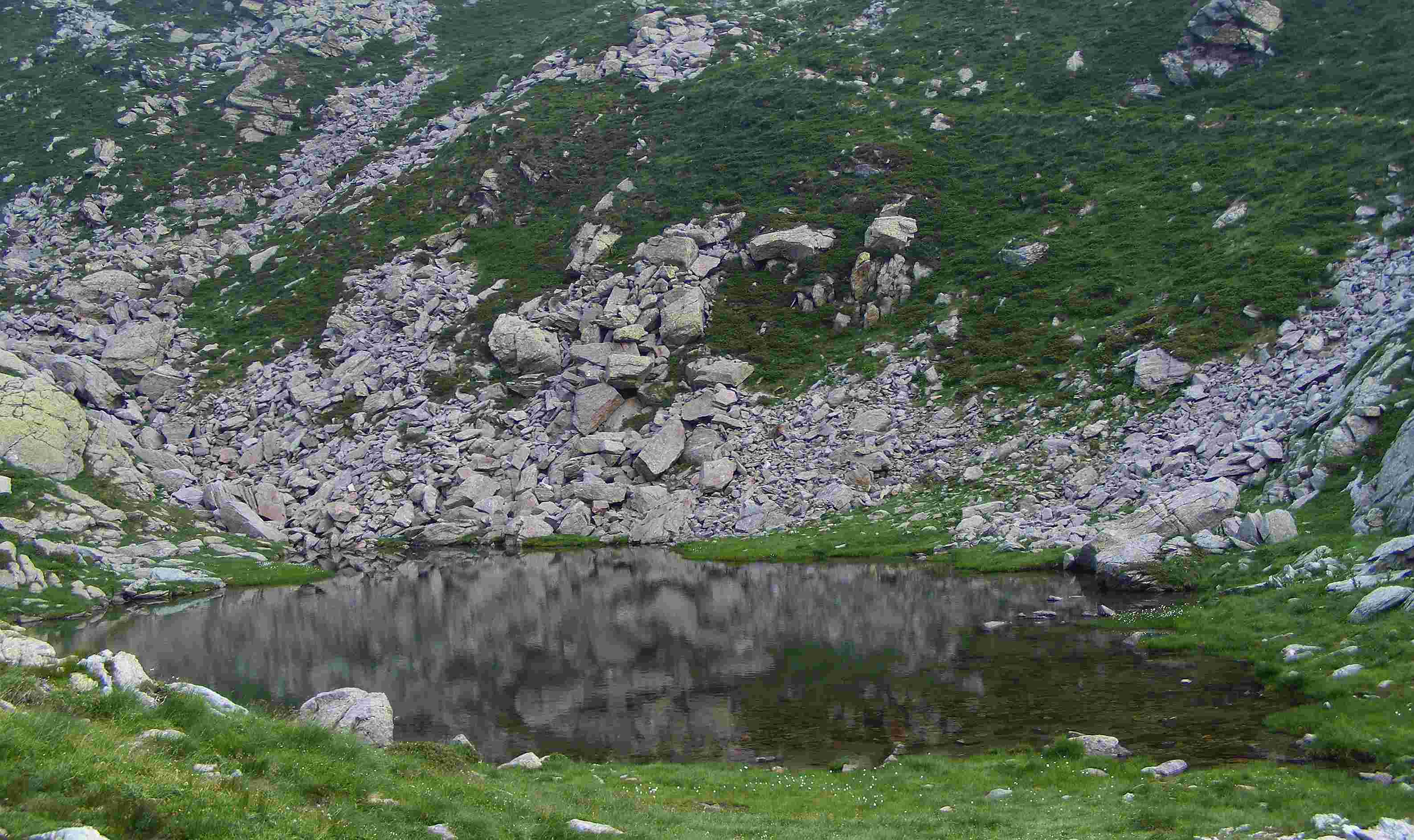 Pasci lake - Pennine Alps, BI, Italy